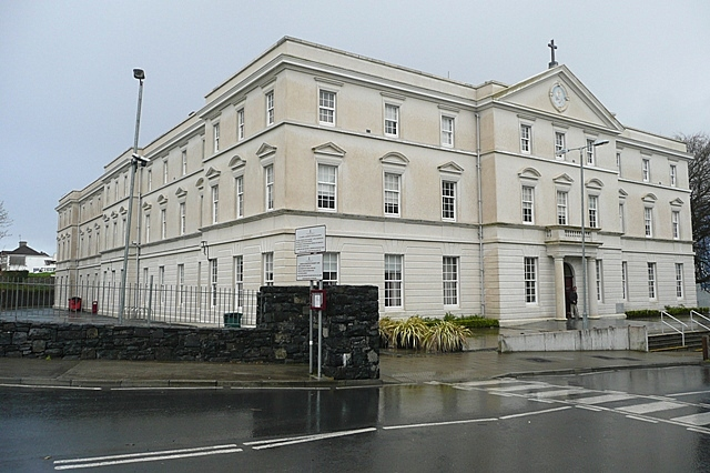 National University of Ireland, Galway The main building of the University, off the N59 to the north of Galway City.